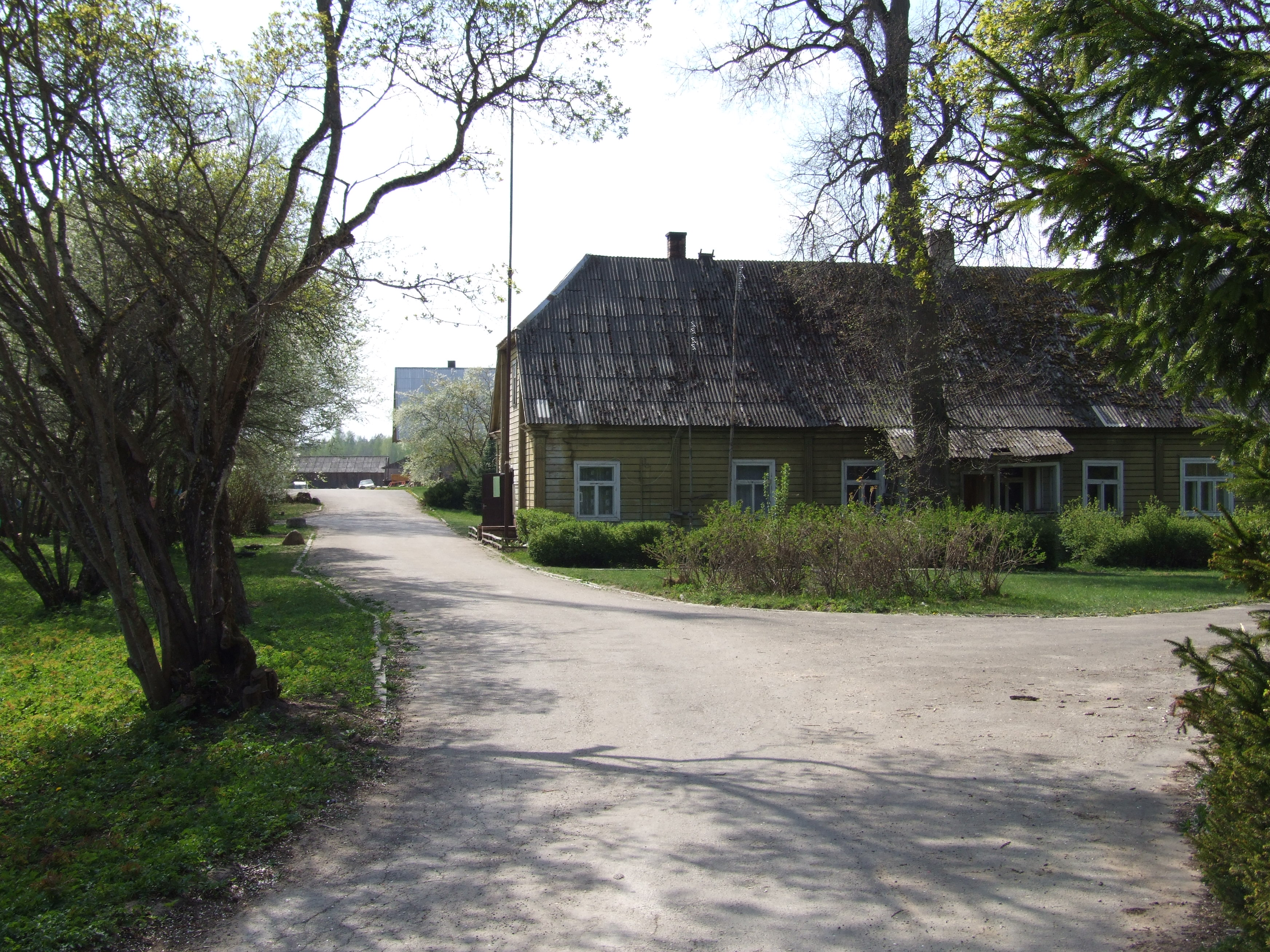 Former Zvirgzde forestry (Latvia)